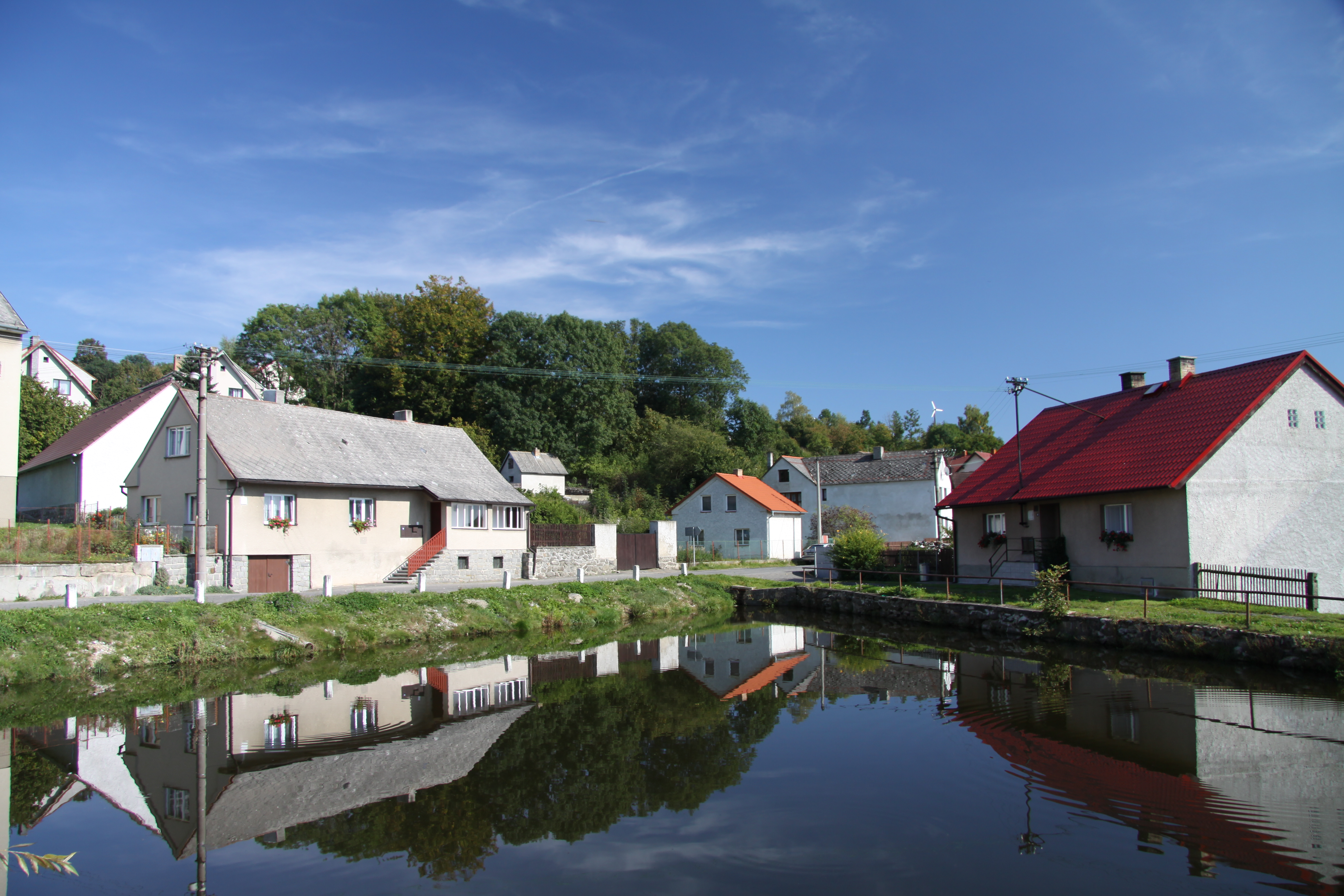 Chyšky village in Písek District, Czech Republic - Google Maps - Google Earth